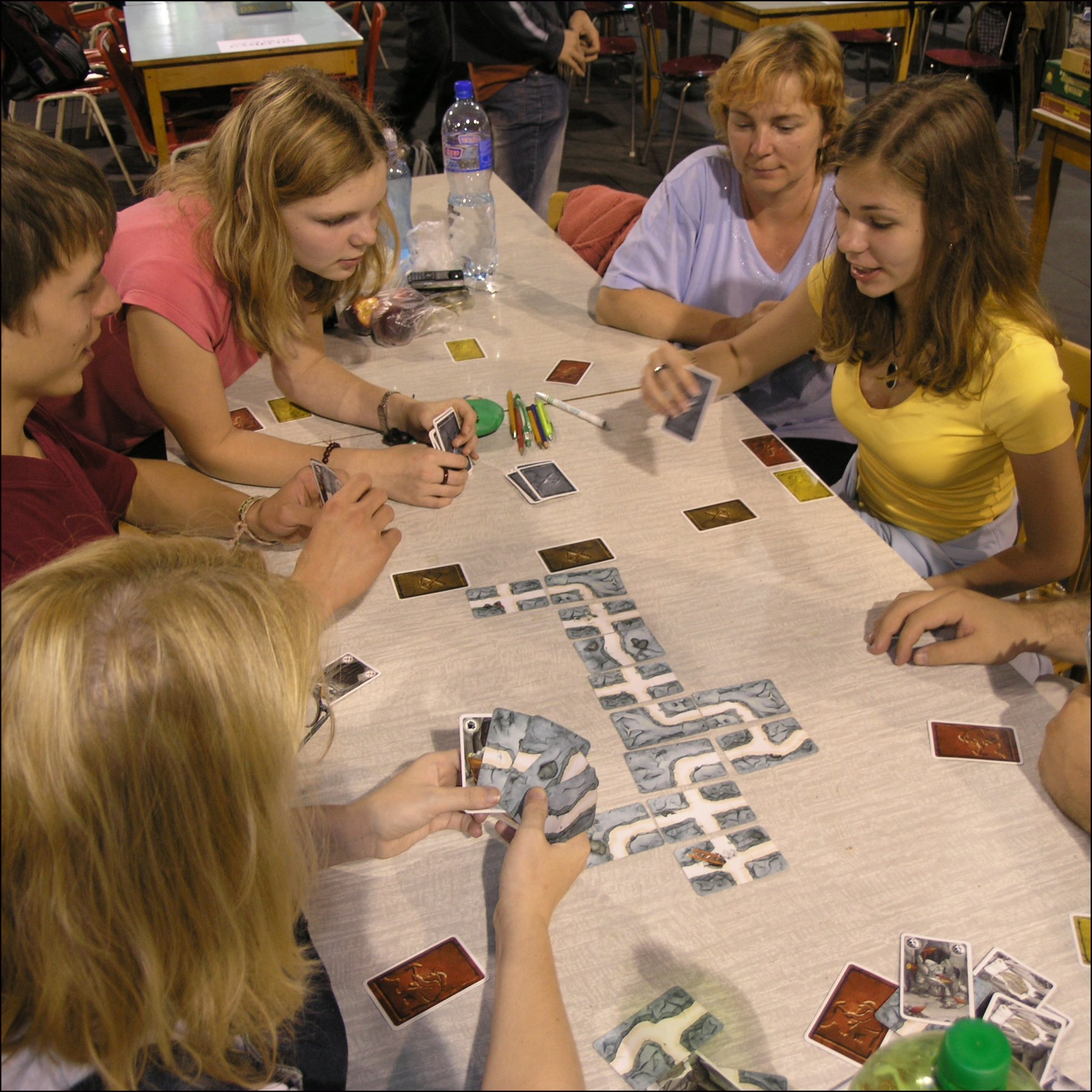 GameCon 2007 in Pardubice - Saboteur